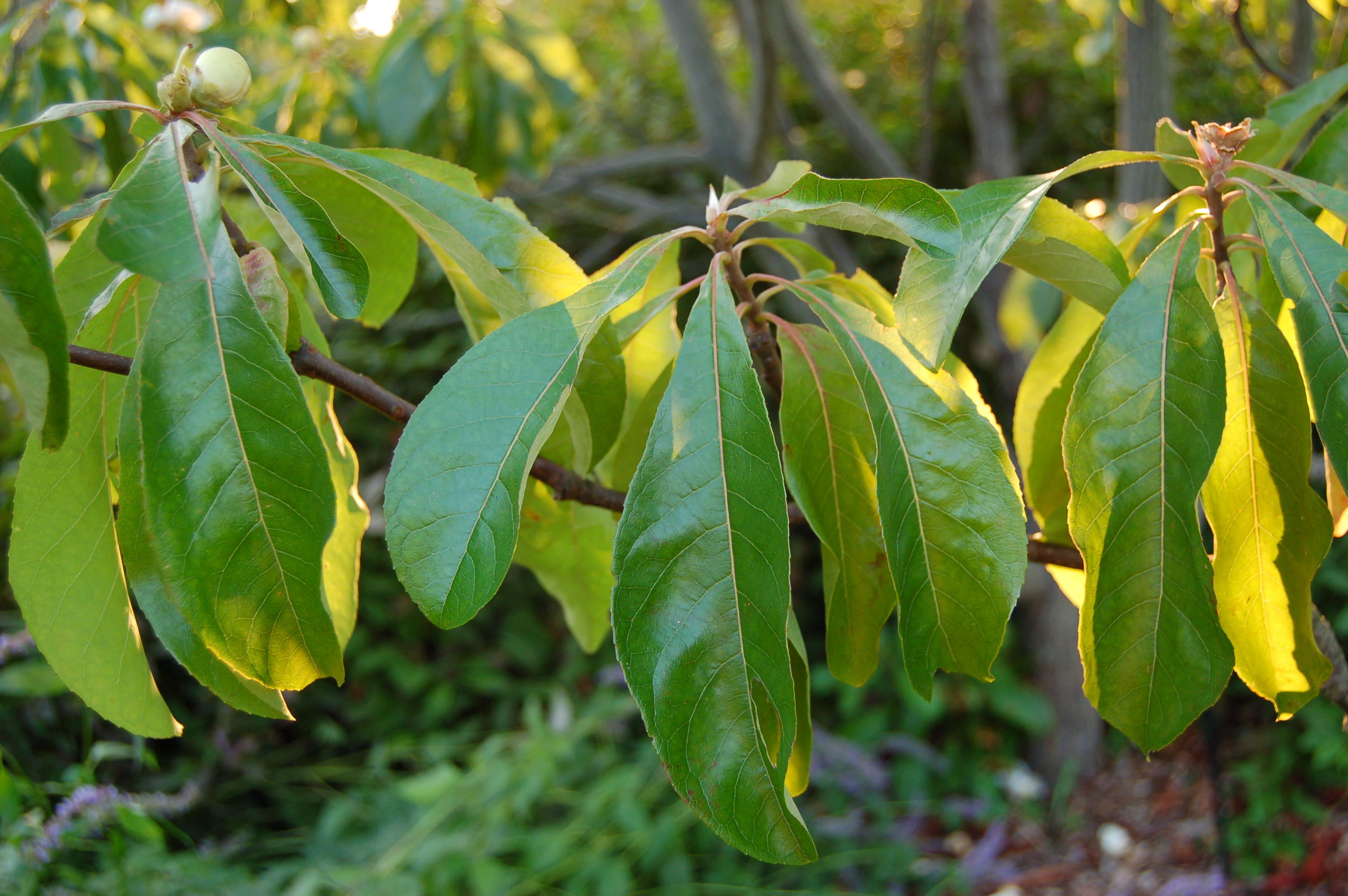 Photograph of the leaves of the Franklin Tree (Franklinia alatamaha). Photo taken at the Tyler Arboretum where it was identified.